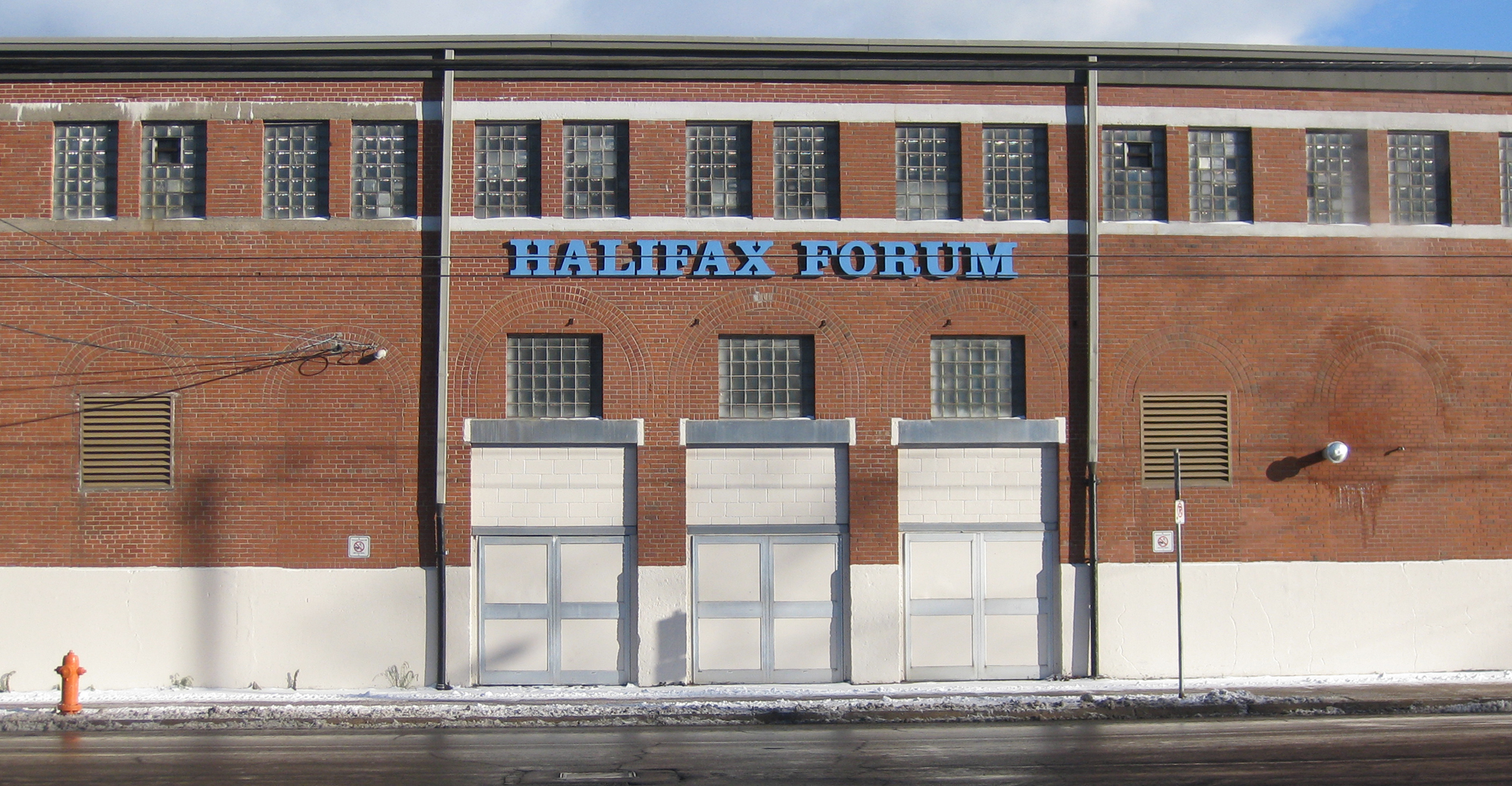 Windsor Street entrance to the Halifax Forum